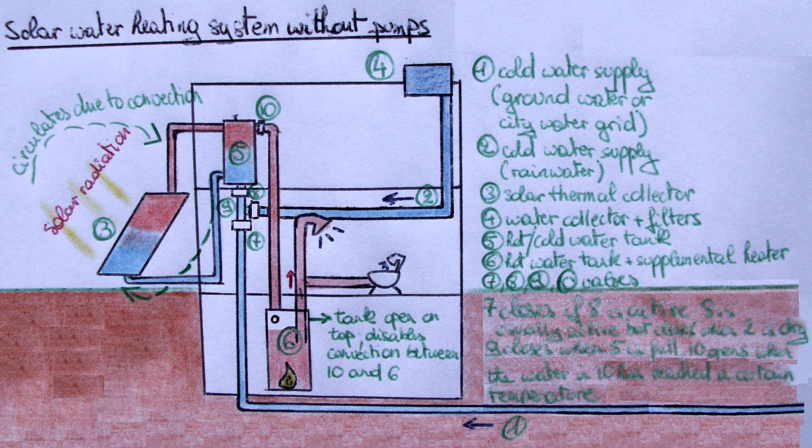 A schematic of a thermosiphon solar water heating system. Thermosiphon systems do not have pumps, increasing durability and decreasing operation costs. The schematic was based on a schematic by EERE ( ;schematic 3). Note that the convection effect between 6 and 10 was eliminated because of the fact that the water pressure was removed due to the fact that 6 is open at the top (connection to outside air via hole). This makes sure that the force of gravity takes effect at the water in the pipe after 10, driving down the hot water. The water is again lifted due to the convection effect as the second pipe extends down into the hot water unlike the first one. The valves themselves will need to be computer operated (connected to sensors as noted in schematic). 6 is ideally electrically heated.